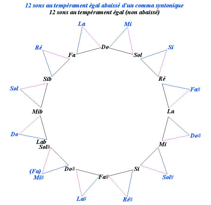 Temperament 2x12 sounds for 24